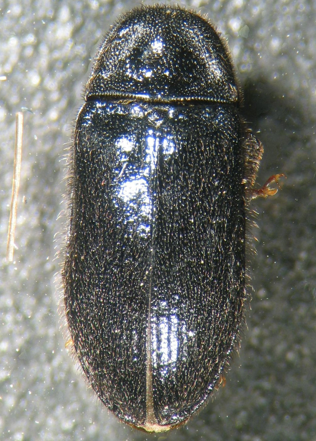 adult Brounia thoracica from LENZ project, now deposited in LUNZ